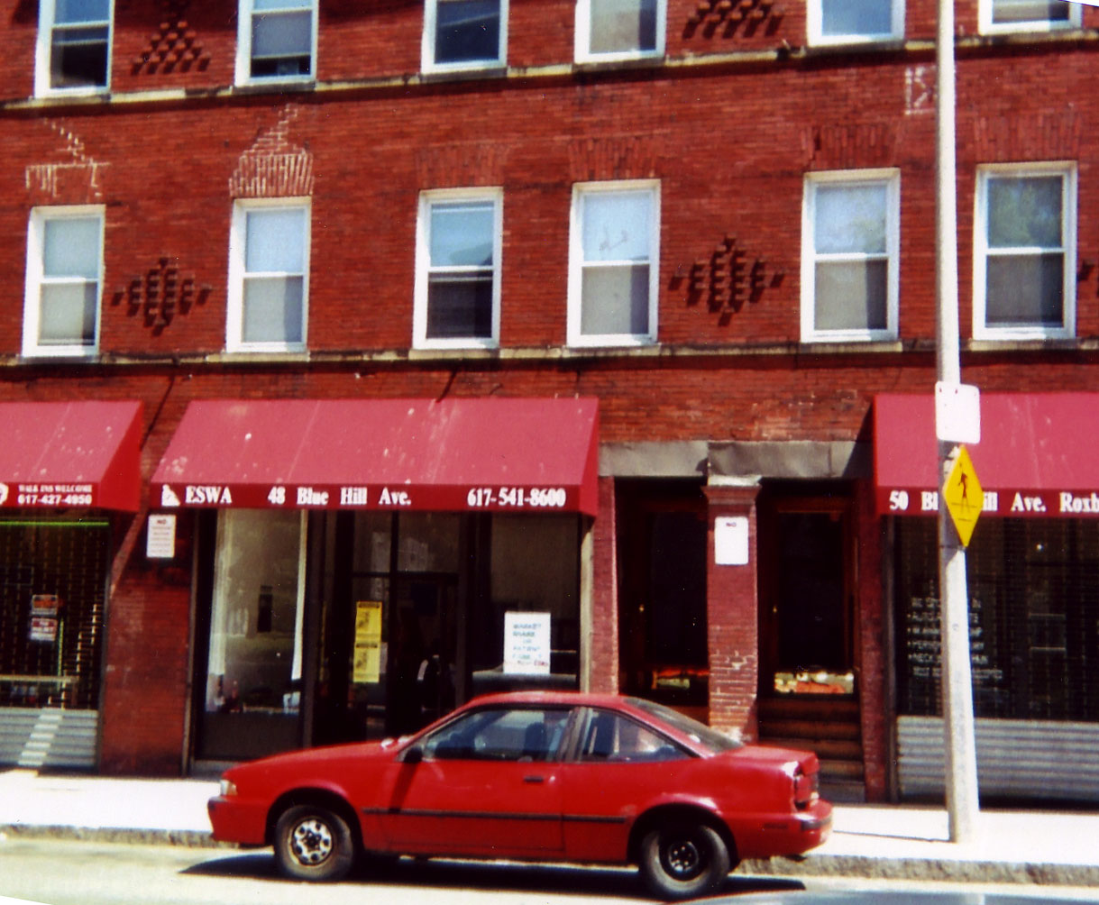 Photograph from July 2007 of the storefront of the Eastern Service Workers Association(ESWA) office in the Roxbury neighborhood of Boston. ESWA is part of the National Labor Federation.